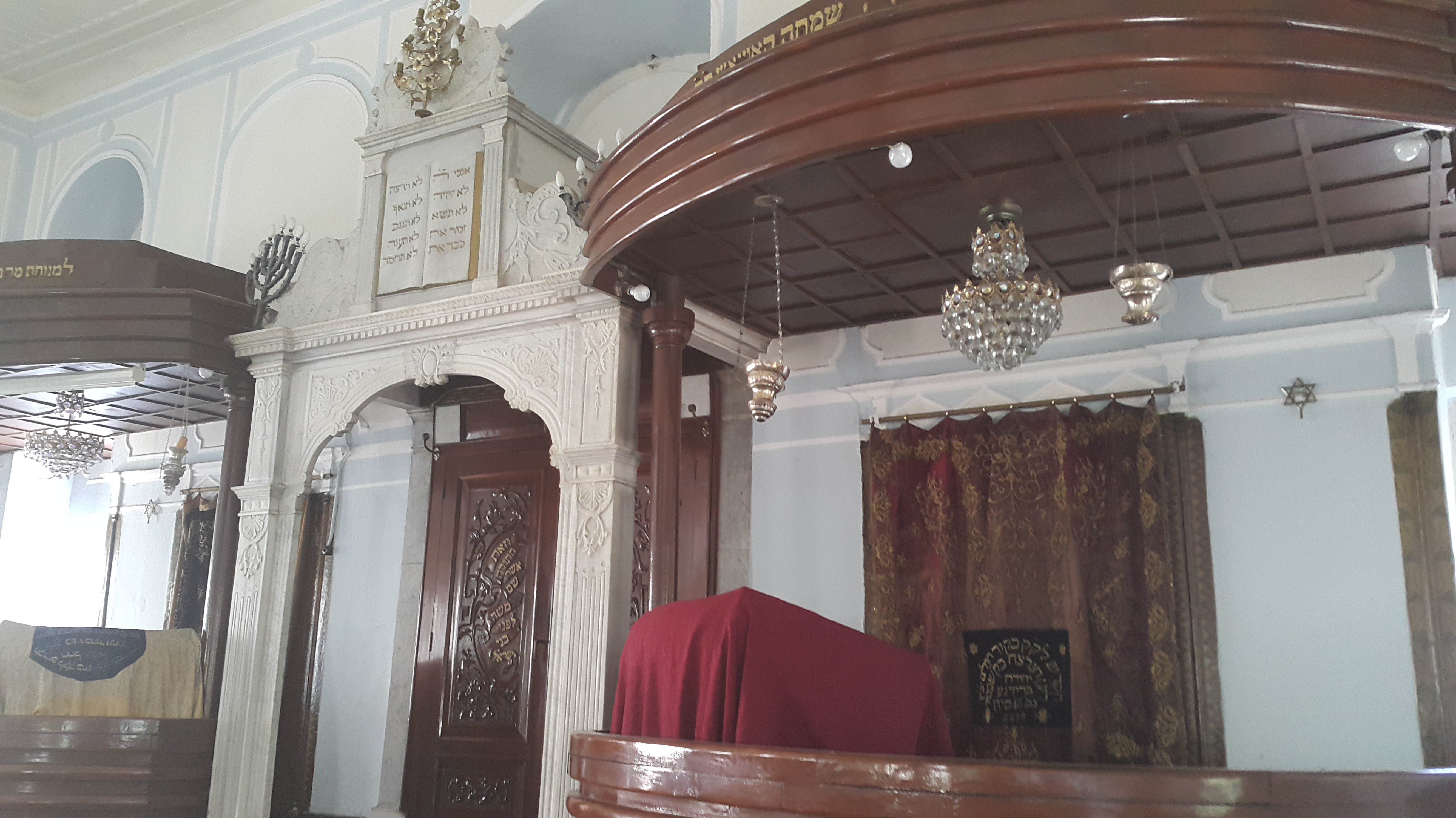 hekal wall